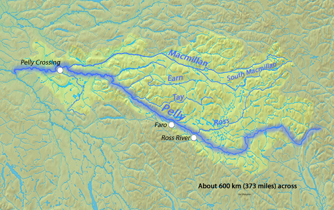 Map of the Pelly River, a tributary of the Yukon River, in the Yukon Territory of northwest Canada